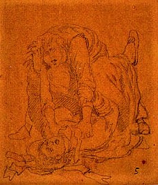 Viktor Hartmann - Sketches of the market of Limoges 1 (cropped) - 5 - more clear